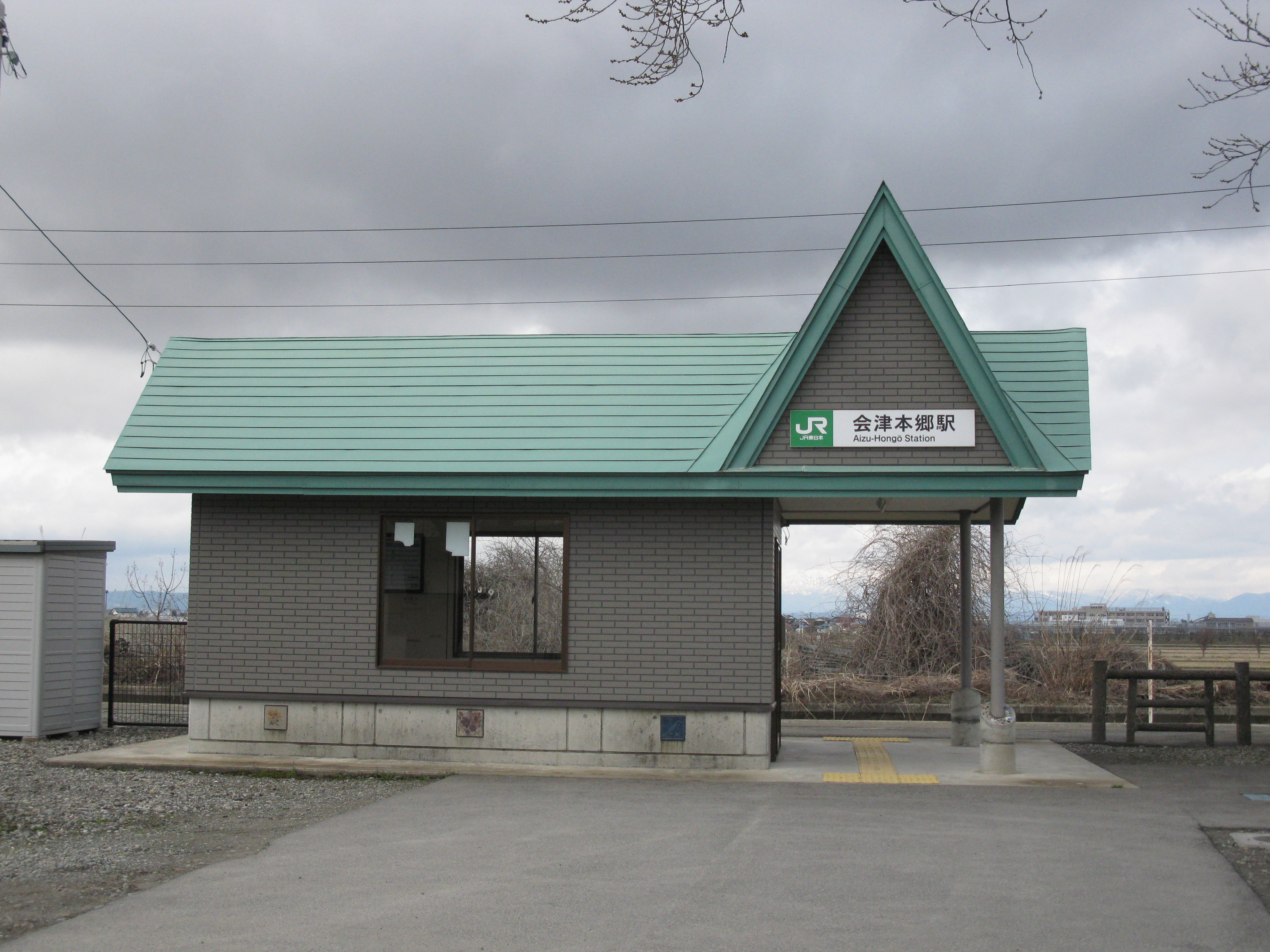 Aizu-Hongō Station building (East Japan Railway(JR East) Tadami Line)